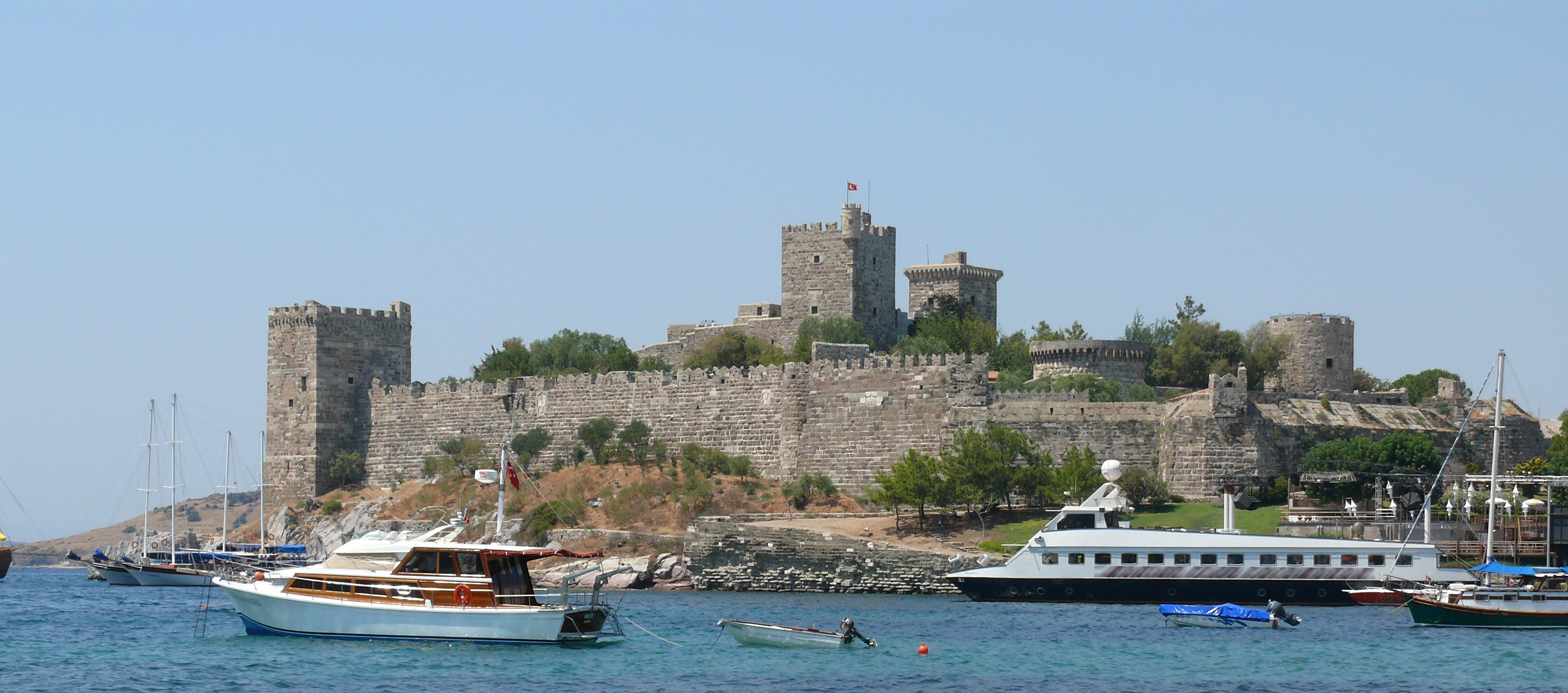 Southeast view of Bodrum Castle. Bodrum Castle (Bodrum Kalesi), located in southwest Turkey in the city of Bodrum, was built by the Knights Hospitaller starting in 1402 as the Castle of St. Peter or Petronium.